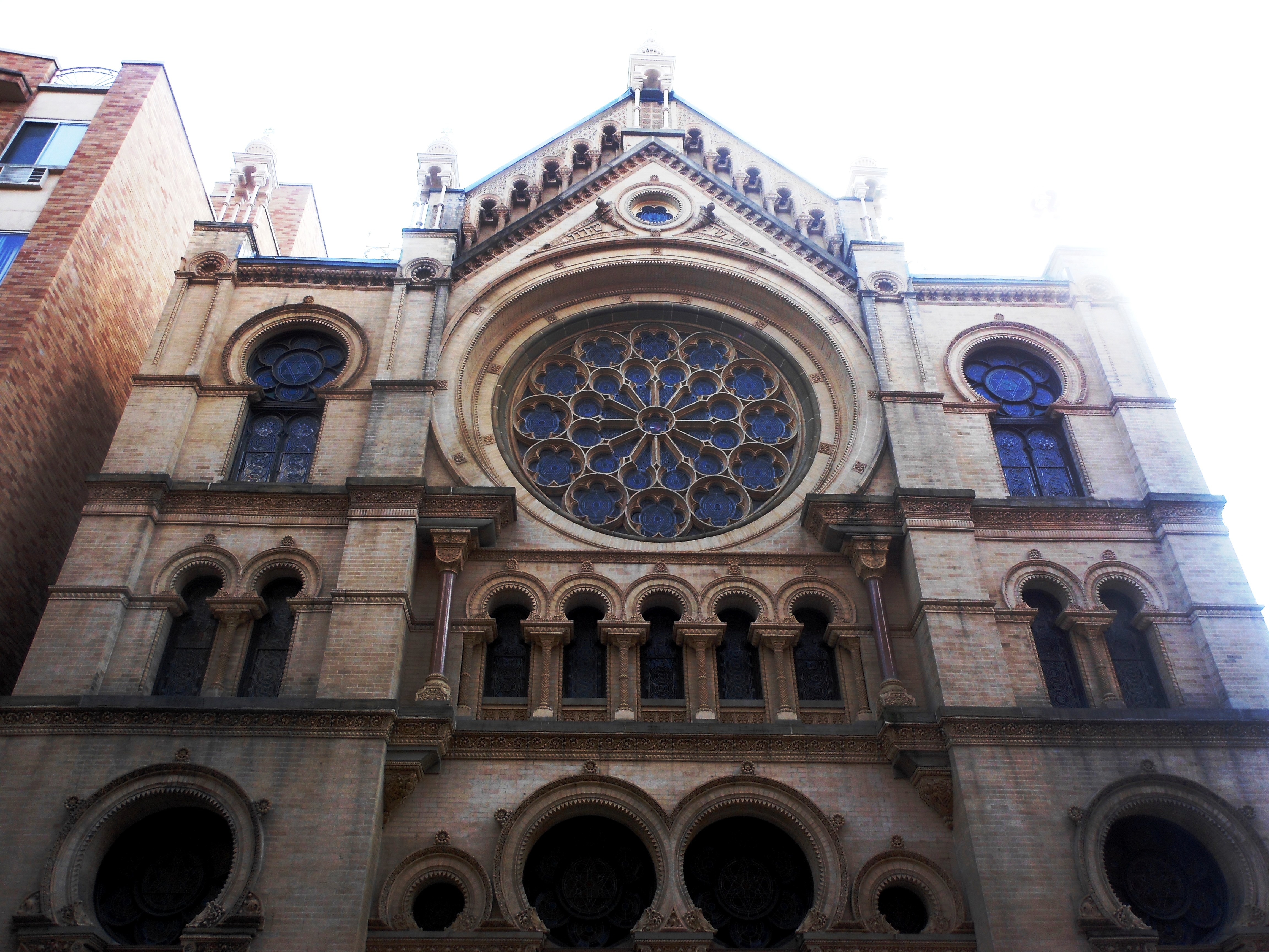 Eldridge Street Synagogue front facade. Historic synagogue in Manhattan, New York City